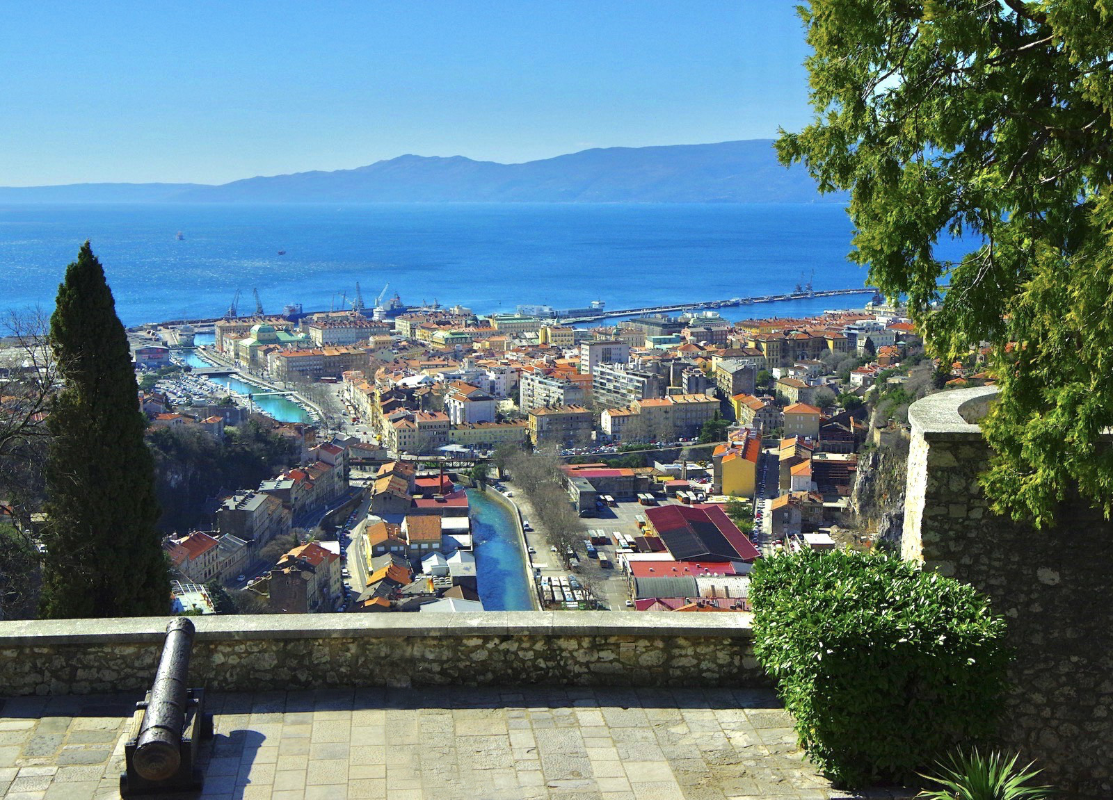 View of City Center from Trsat Castle